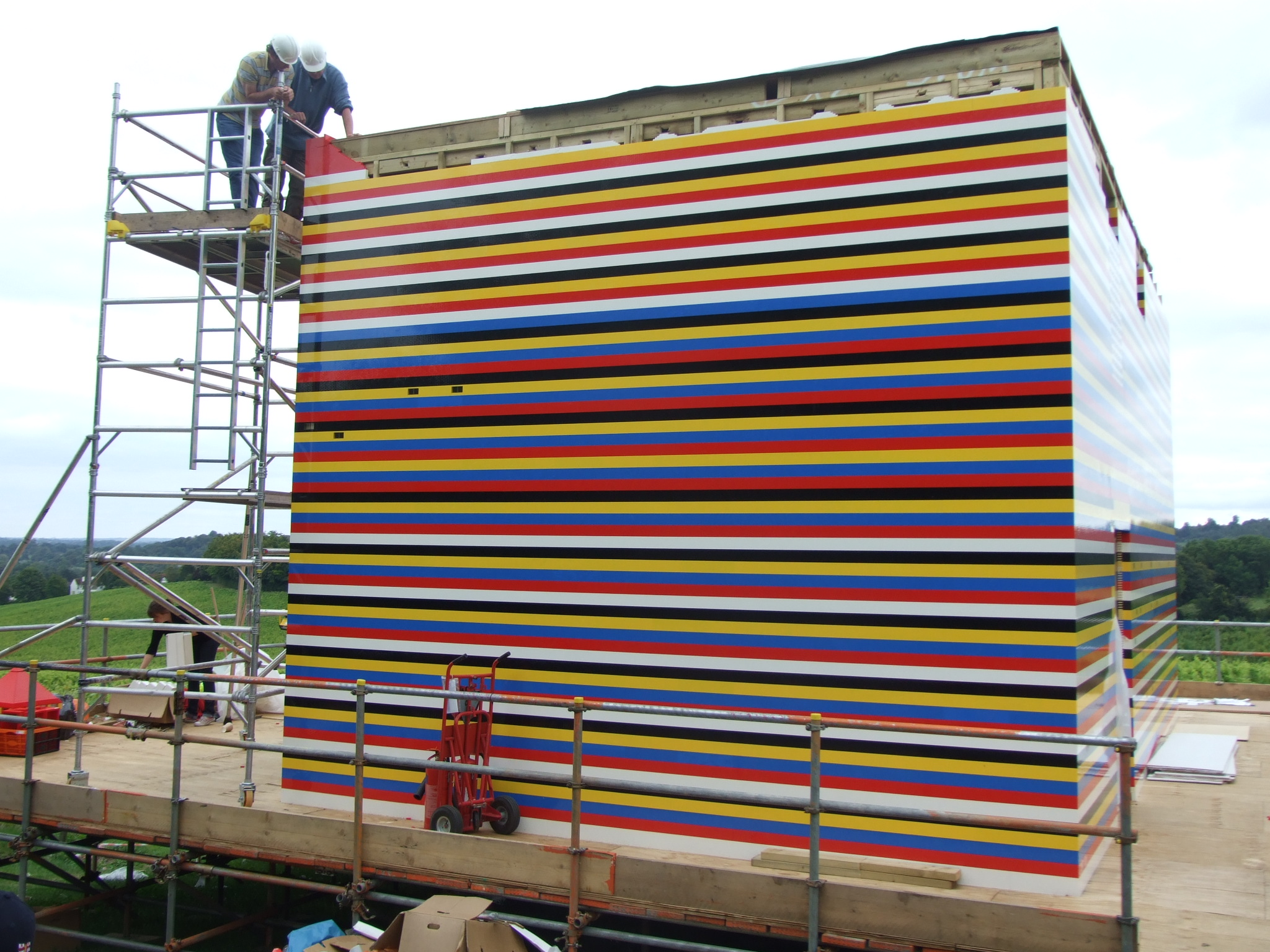 James May's Lego House nears completion.